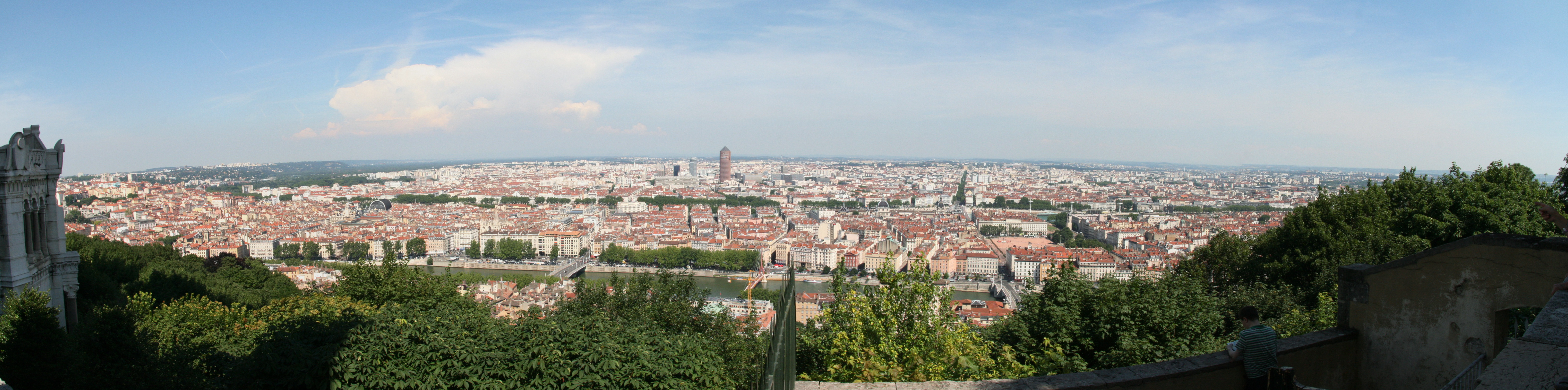 Panorama image of the city of Lyon, taken from the Basilica of Fourvière.